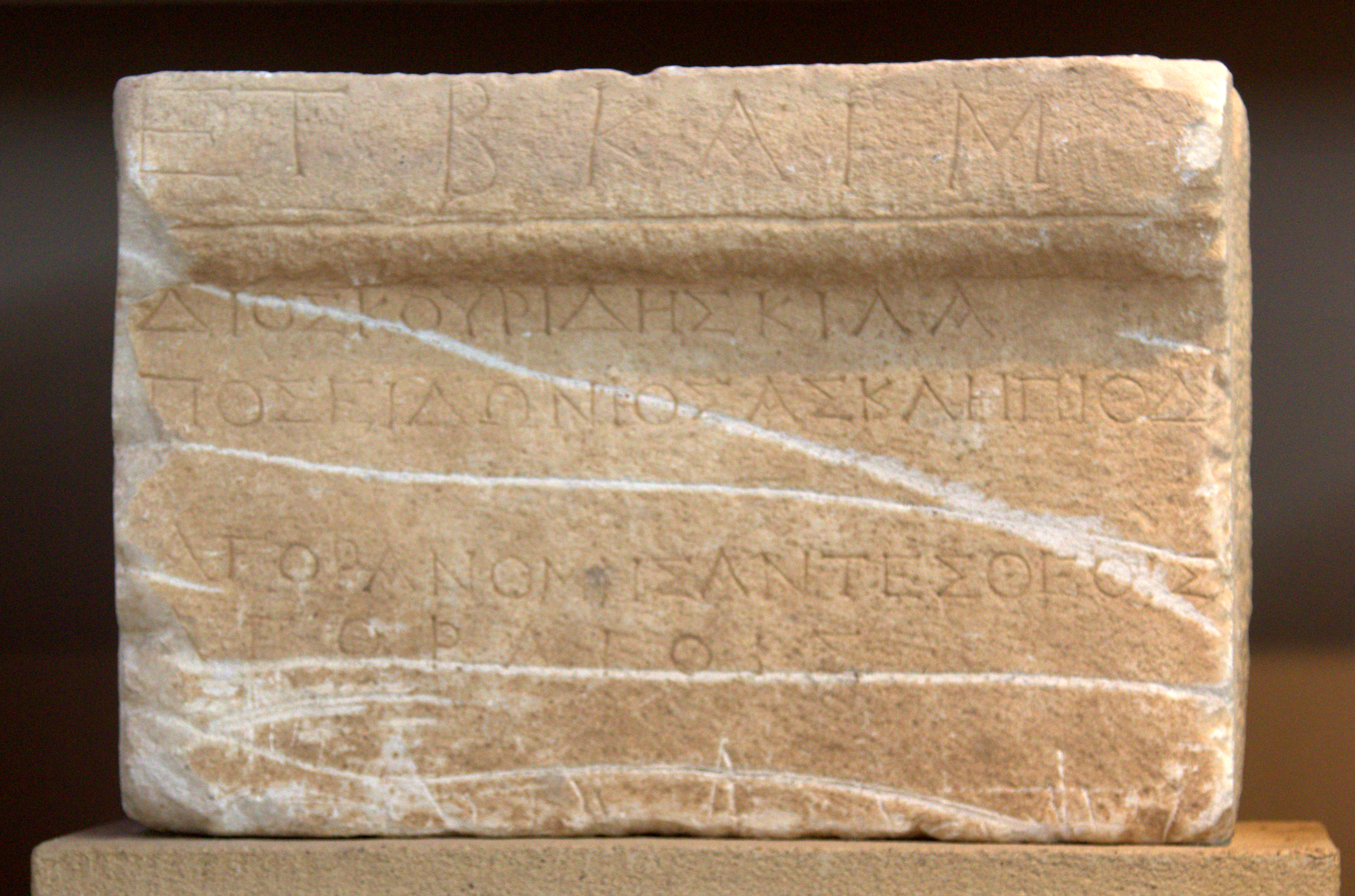 "In the year B and M the agoranomoi* Dioskourides, son of Kila, and Poseidonios, son of Asklepiodoros, [dedicated this] to the gods of the Agora (= market place)." The year B and M is 42 (= B=2+M=40). Theredore, the inscription dates at 148 - 42 = 106 B.C. Galatista (ancient Anthemous), Chalkidiki, Greece. agoranomoi = City officials who kept public order in the market, supervised food supply and maintained the market buildings. Archaeological Museum of Thessaloniki, Greece.